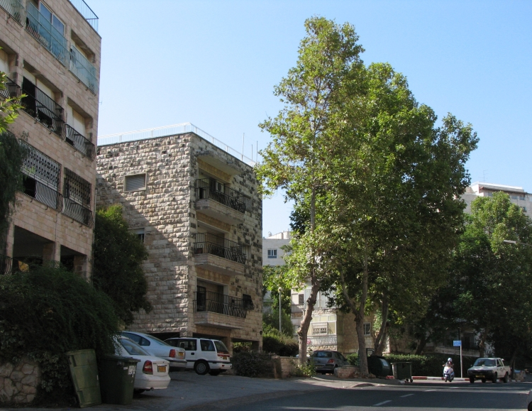 View of Shimoni Street in Rassco, Jerusalem.